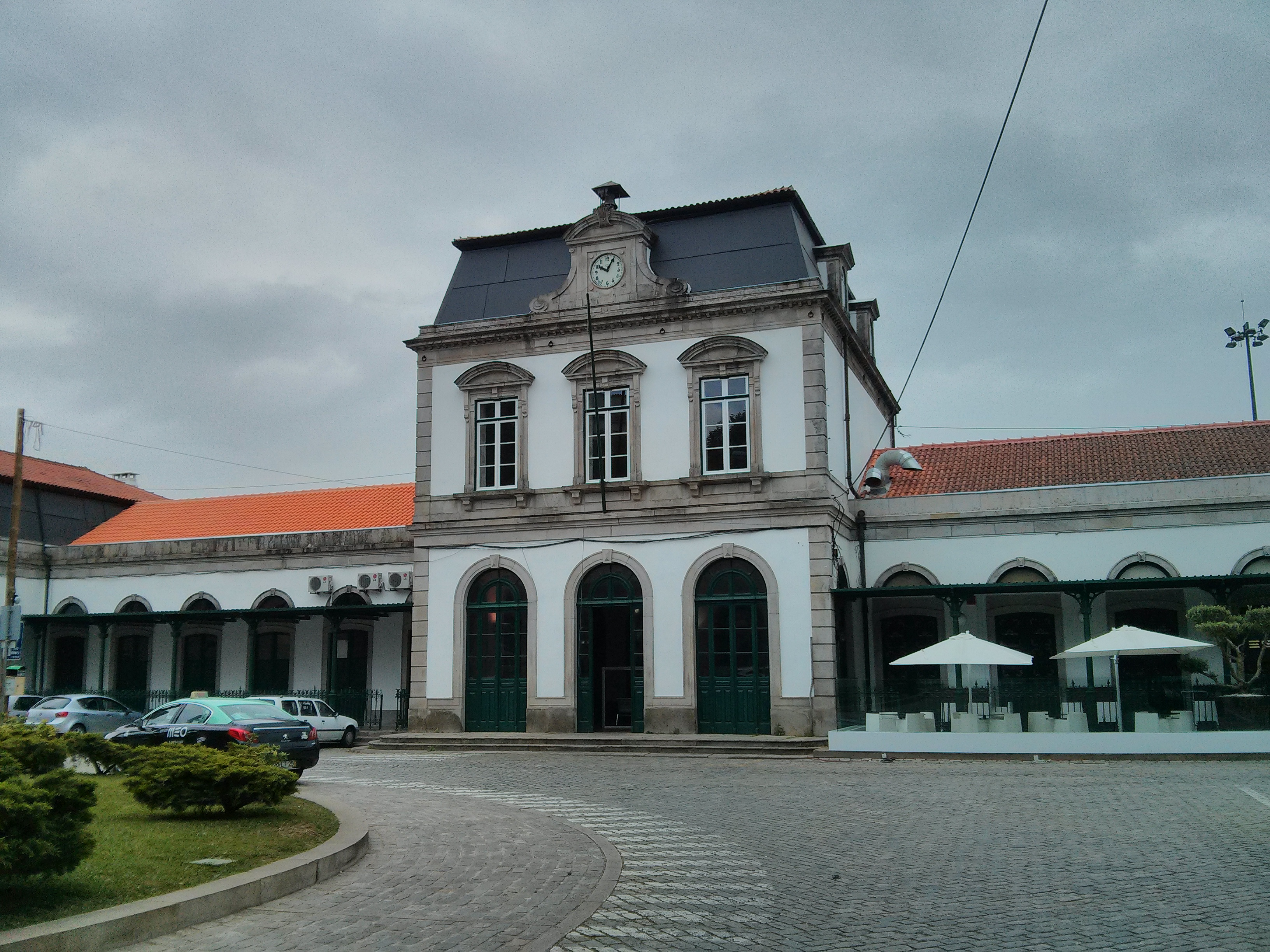 Valença train station, Valença, Portugal